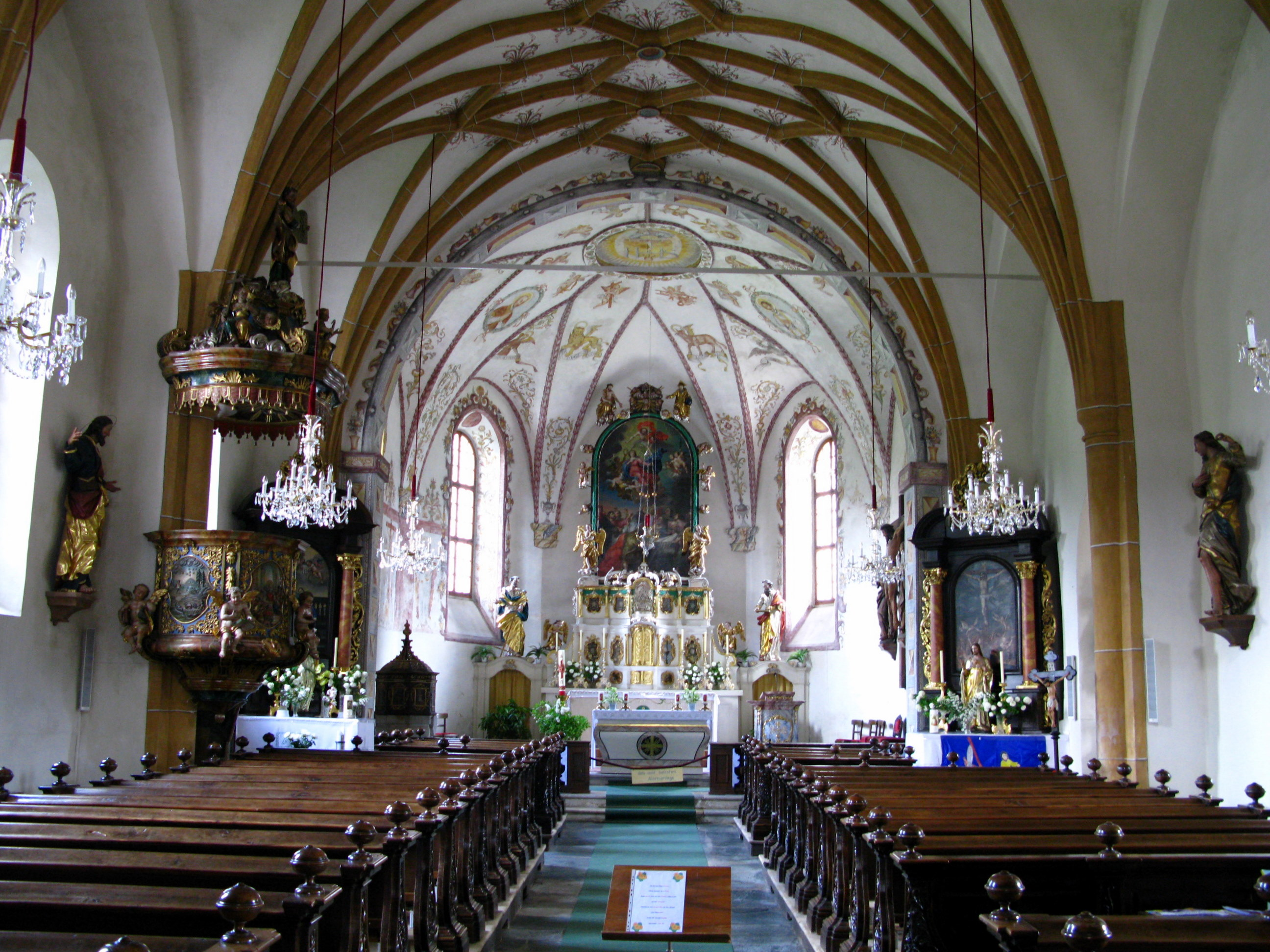 Church of Lieseregg near Lake Millstatt (Millstätter See) community of Seeboden / Spittal an der Drau / Carinthia / Austria / EU.